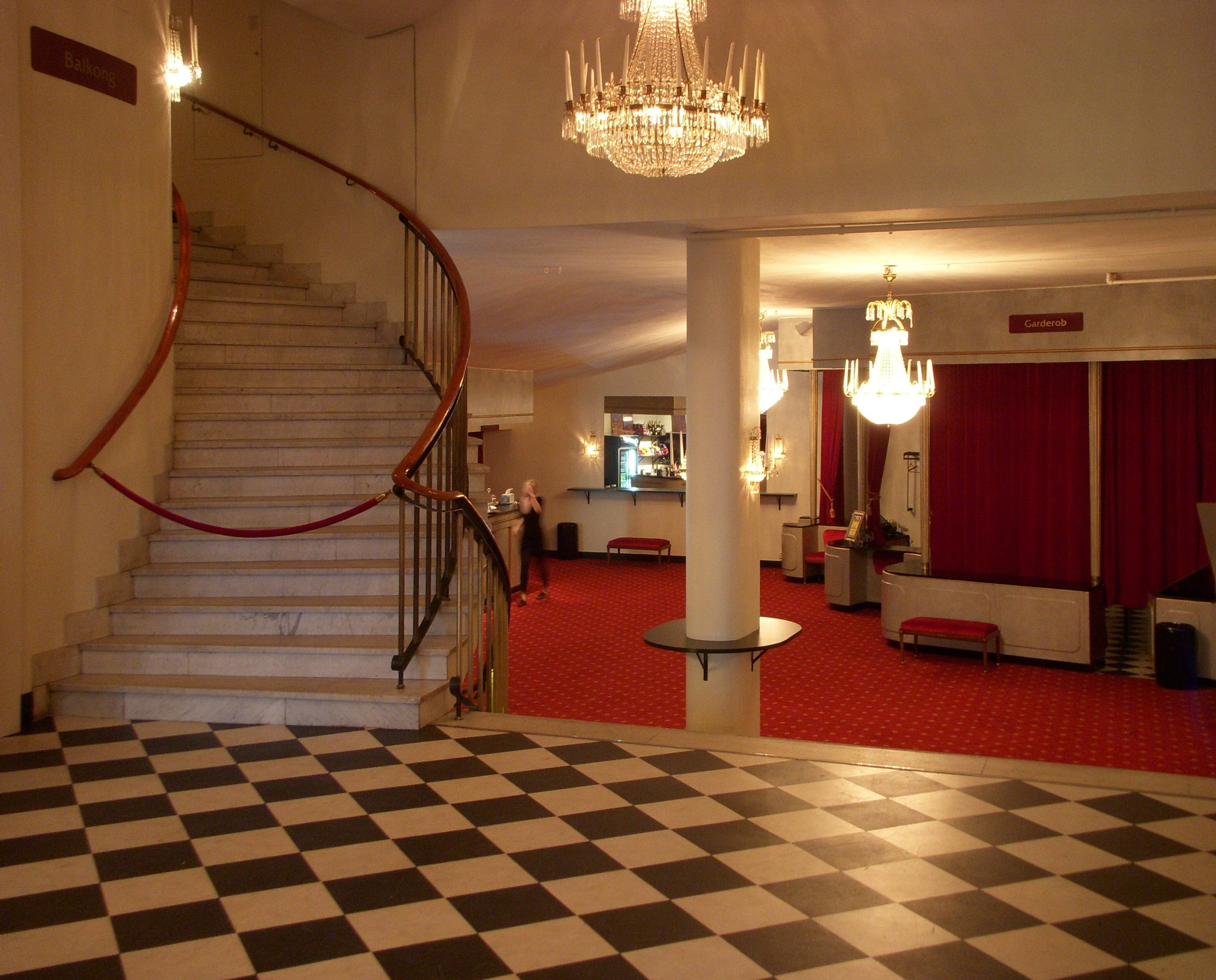 Interior of the Intima Teatern, Odenplan, Stockholm, Sweden